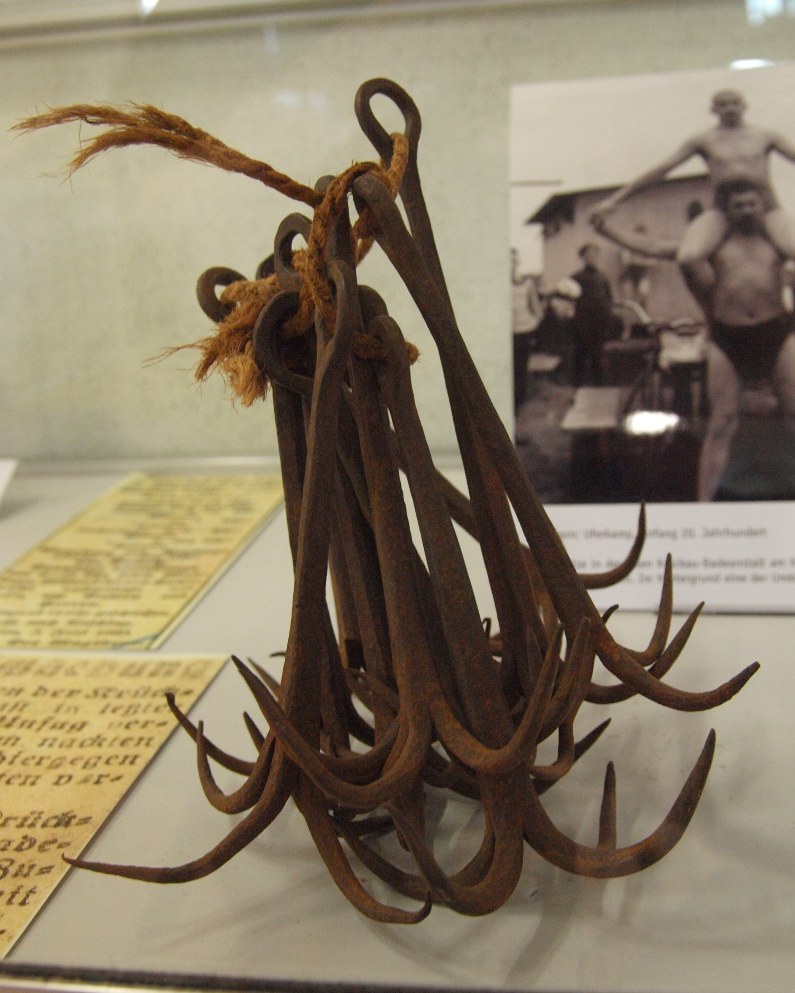 Hooks of a corpses fishing device for rescuing the bodies of drowed people from the grounds of water bodies. 19th/20th century. Photographed at Industriemuseum Elmshorn, Schleswig-Holstein, Germany.